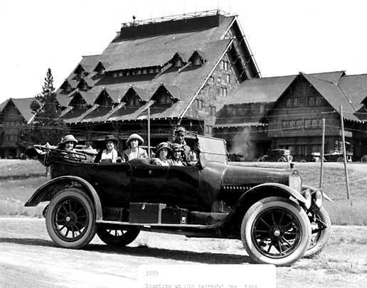 Historic tourism in Yellowstone National Park. Car tourists in front of Old Faithful Inn